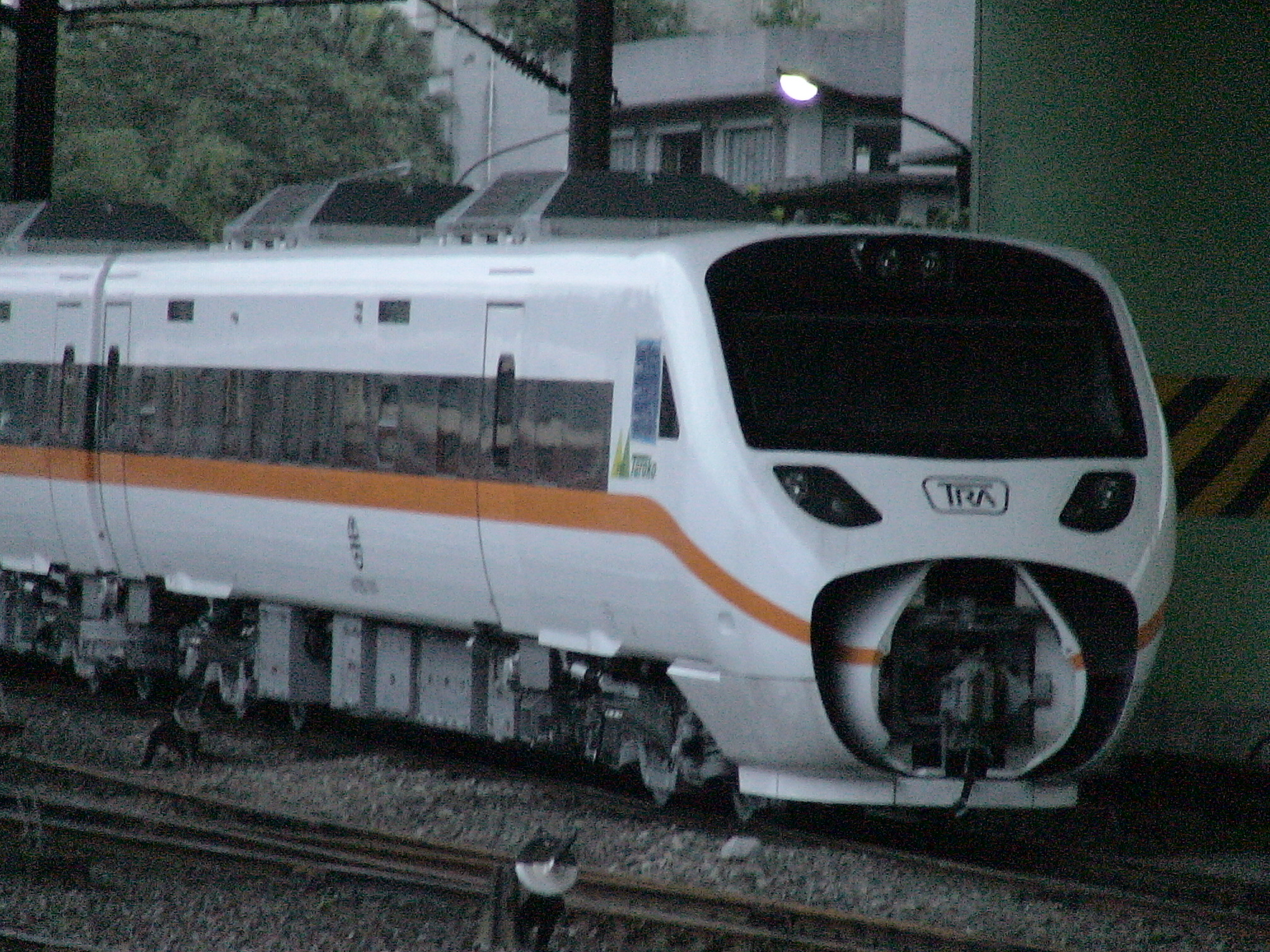 Taroko Train (TRA) Open Nose.